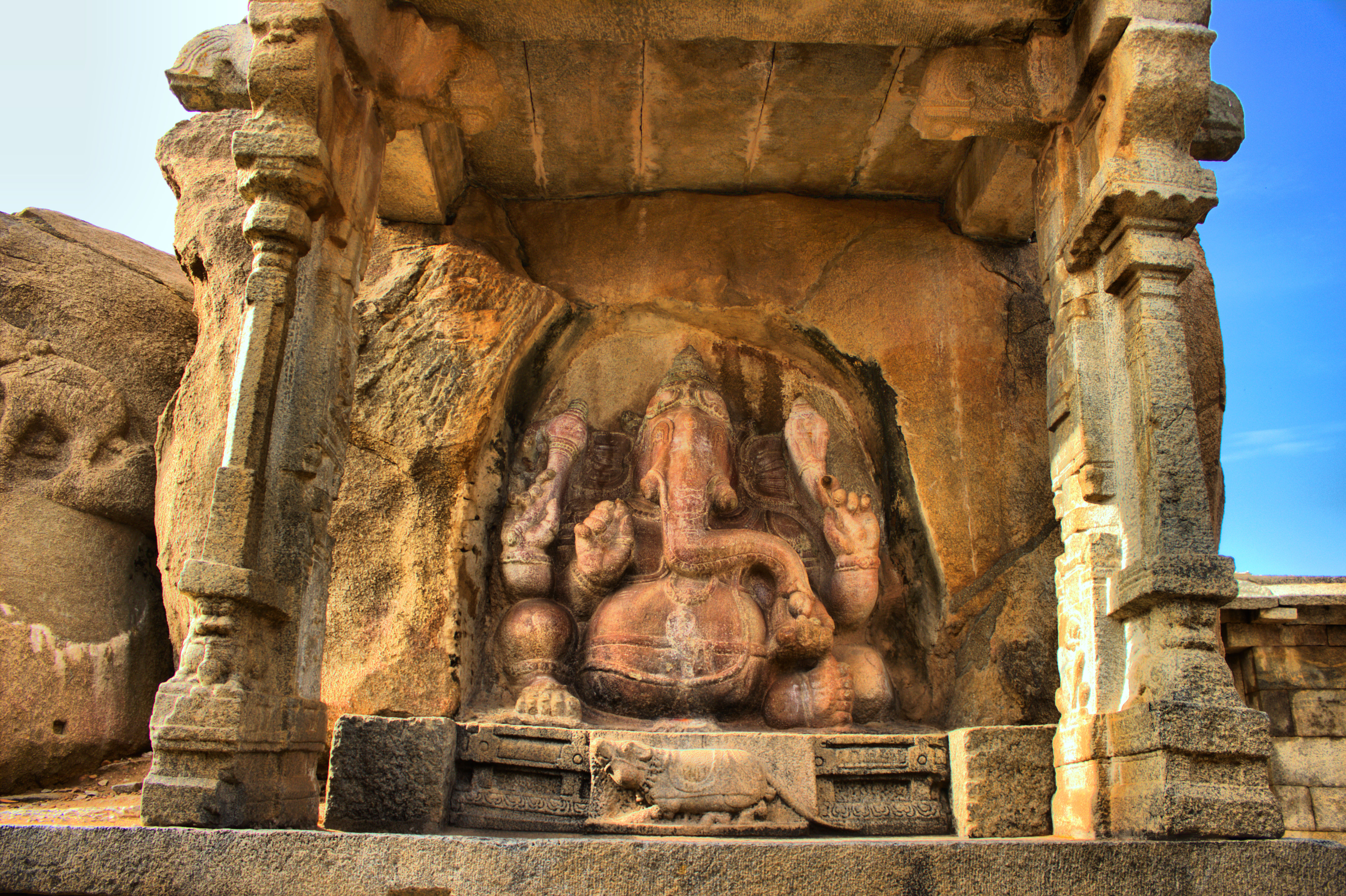 Lord Ganesha at main temple premises.